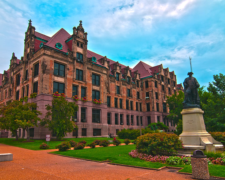 Old City Hall and statue of Pierre Laclede, the city's founder, in St. Louis